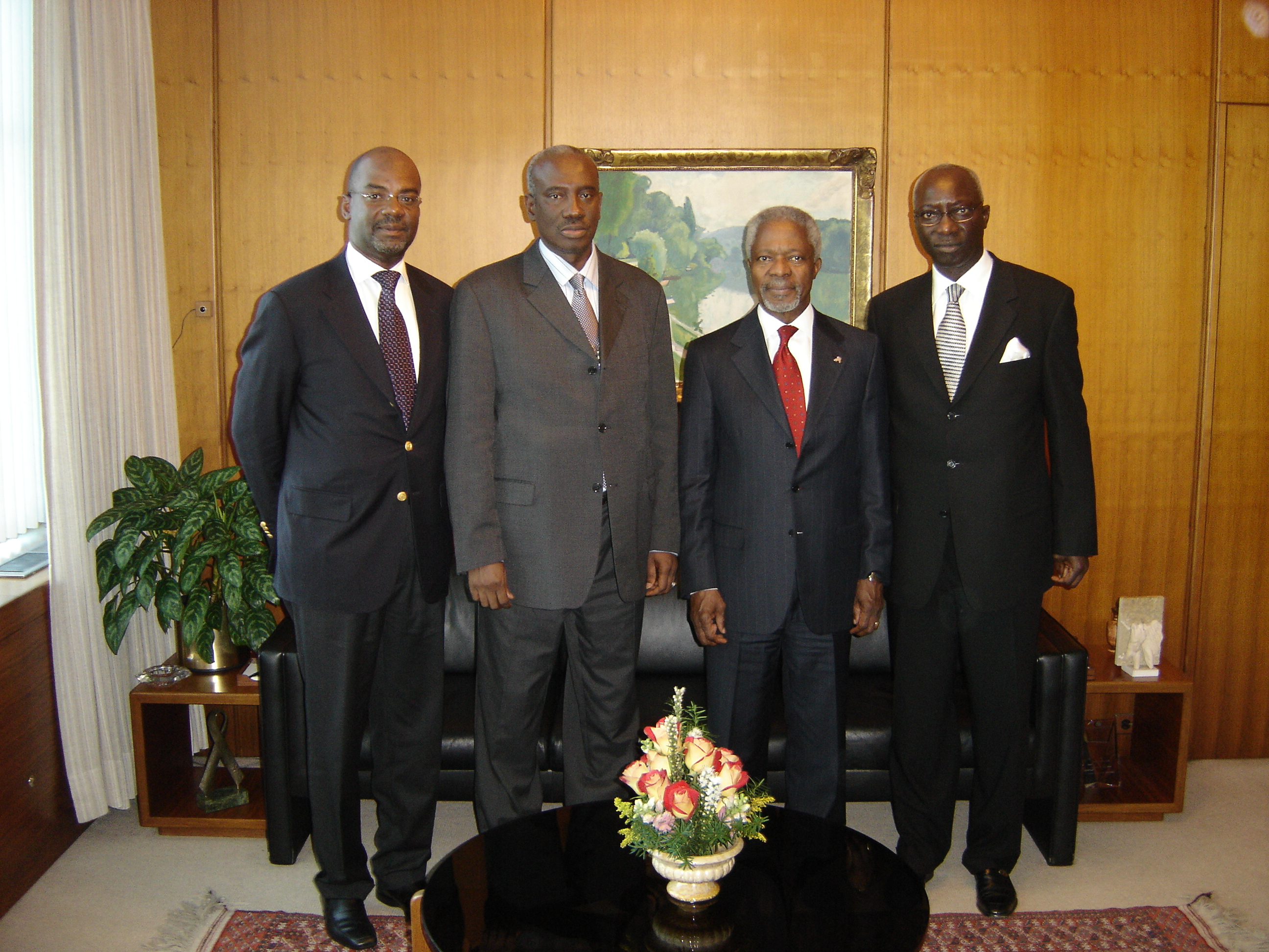 From L-R: UN Senior Counsel, Charles A Adeogun-Phillips; UN Under-Secretary-General, Hassan Bubacar Jallow; UN Secretary-General, Kofi Annan; UN Under-Secretary-General, Adama Dieng at UN Headquarters New York in December 2006